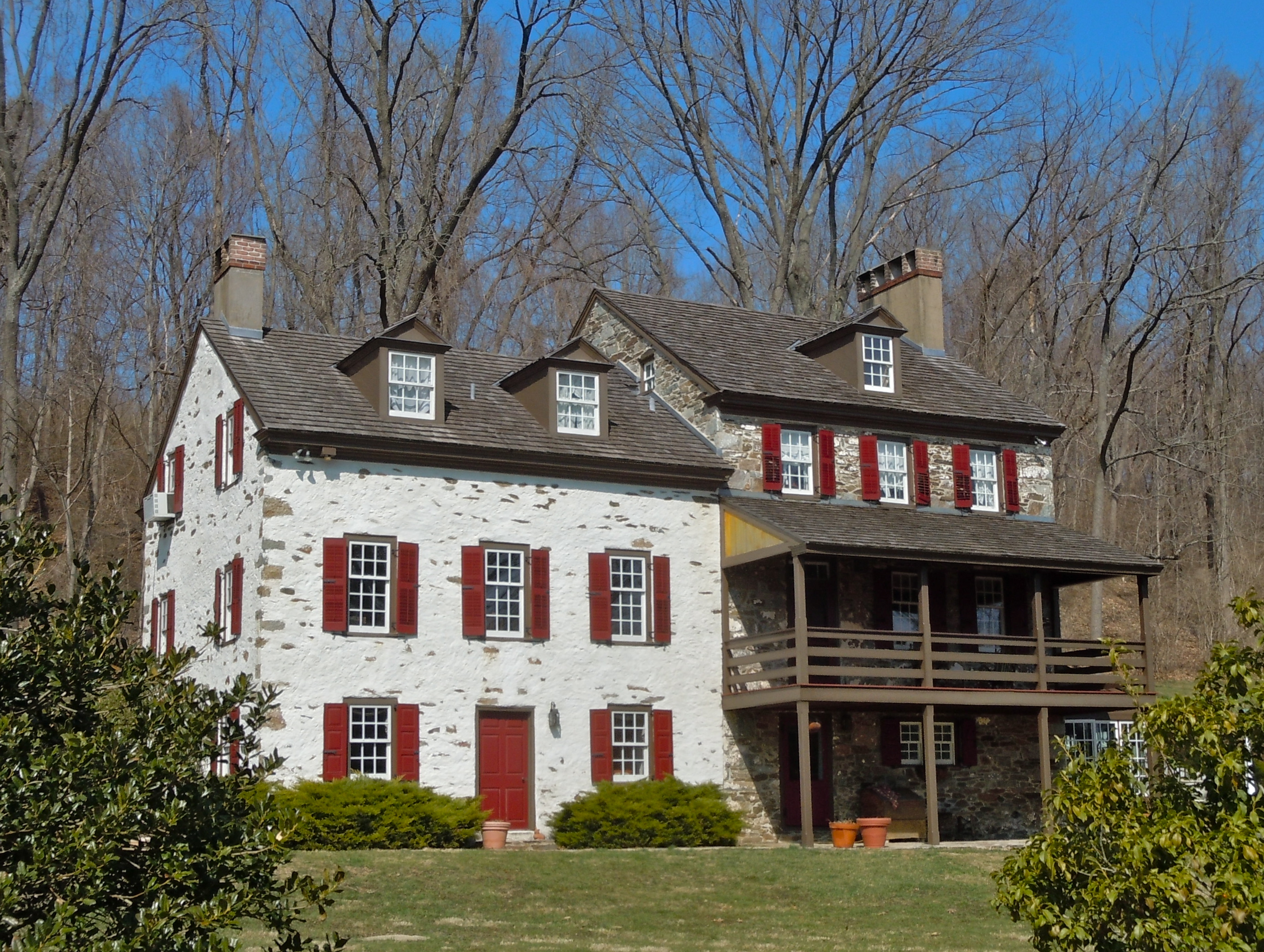 House in Trimbleville Historic District, on the NRHP since September 16, 1985. Historic district runs along Northbrook, Broad Run, and Camp Linden Roads, in Pocopson and West Bradford Townships, Chester County, Pennsylvania. This house on Camp Linden Rd, (Pocopson Twp?) across from a 1915 PHMC historical marker for Trimble's Ford, where the British troops crossed the Brandywine during the Battle of Brandywine, Sept. 11, 1777.